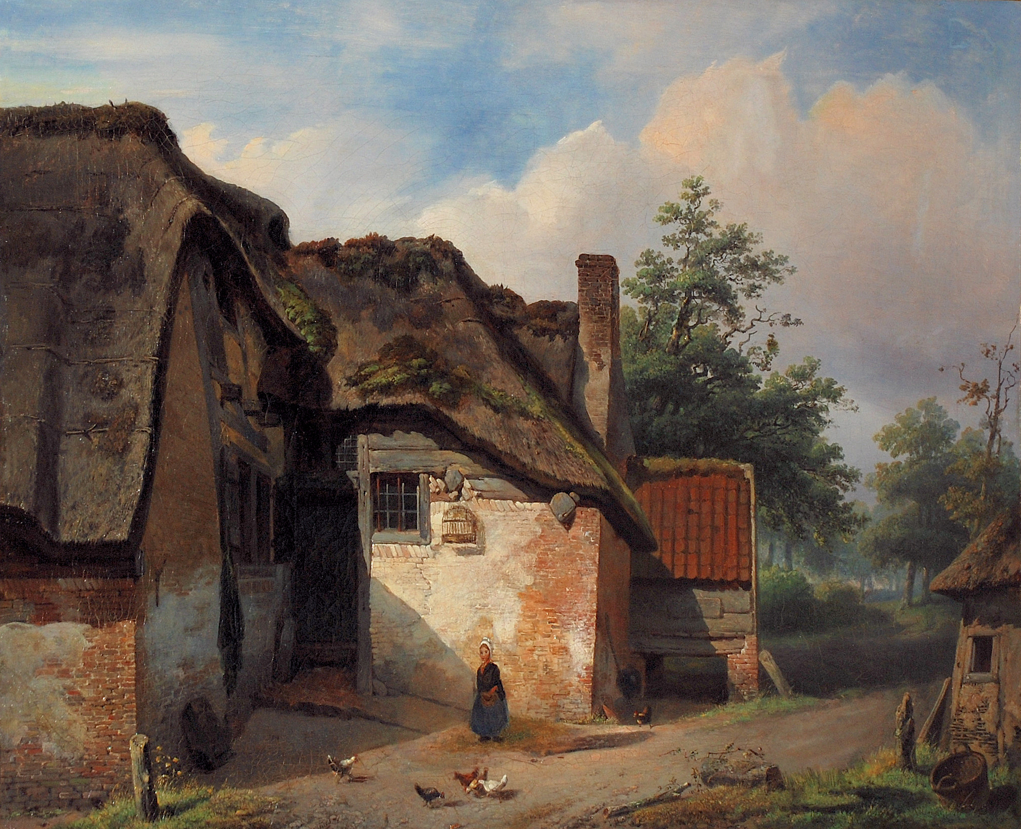 C.C. Huijsmans (1810-1886) Farm-house in Brabants landscape, 1849. Oil on canvas, 75 x 60 cm.